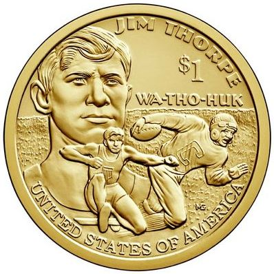 Reverse of 2018 Native American Dollar Coin